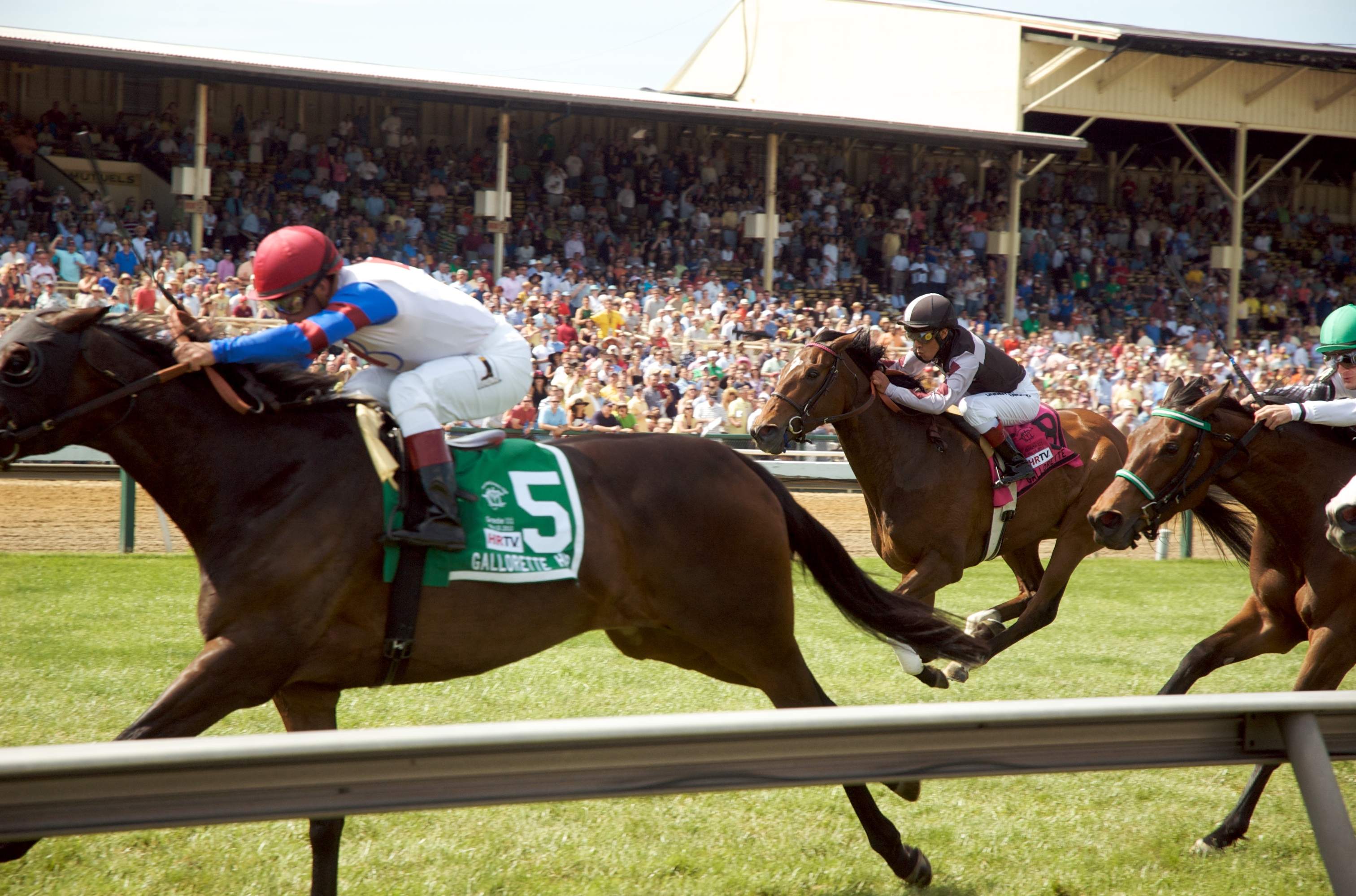 Preakness 2010 at Pimlico Racetrack, Baltimore, Maryland